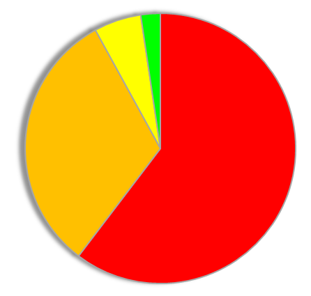 Expressed as a pie chart in the Okayama gubernatorial election in 2012, the number of votes for each candidate. explanatory notes ■ - Ryuichi Ibaragi ■ - Akiko Ichii ■ - Koichi Onishi ■ - Shunichiro Yamasaki